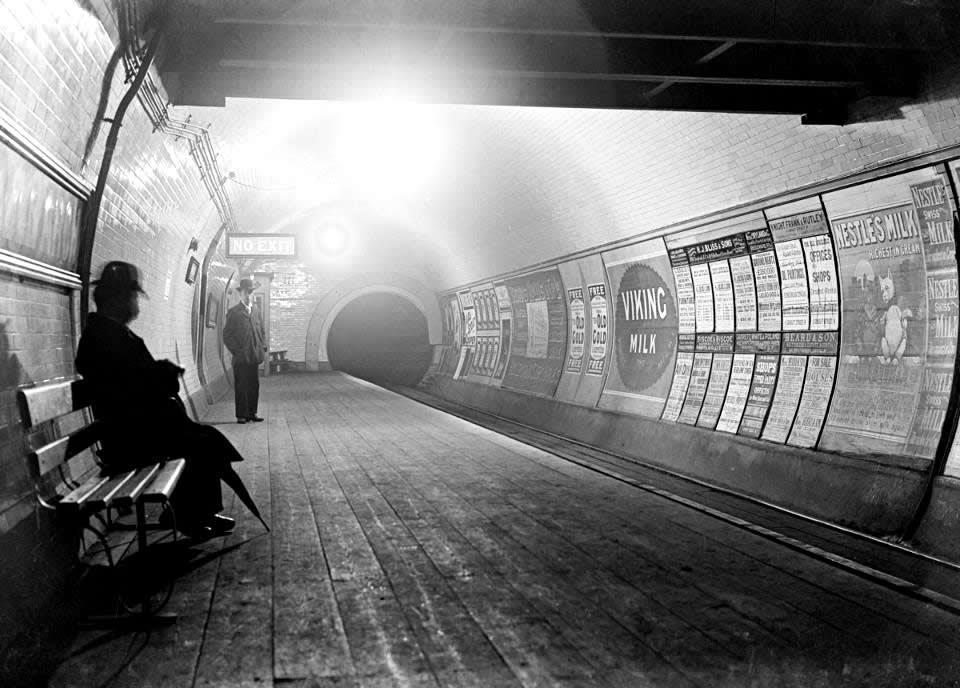 A platform of Marble Arch London Underground station of the Central London Railway shortly after it opened around 1900.